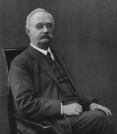 Tycho Tullberg (1842-19020)